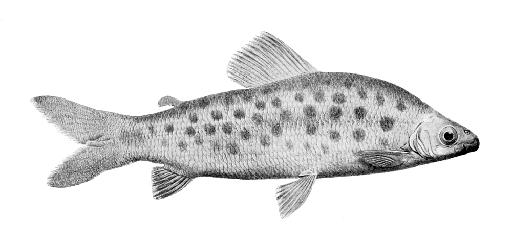 Distichodus maculatus